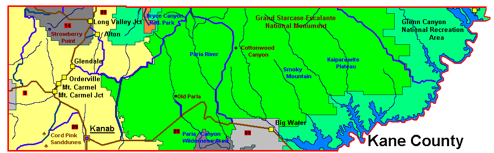 Kane County (UT) Details, selfmade graphic by R.Blauert Dk4hb